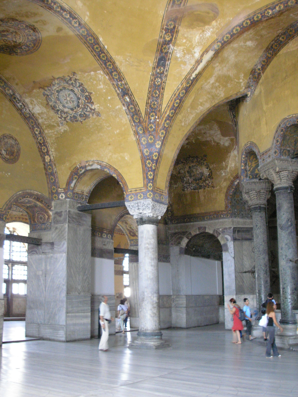 The upper gallery, or enclosure, of the Hagia Sophia. Many mosaics are located on this floor.